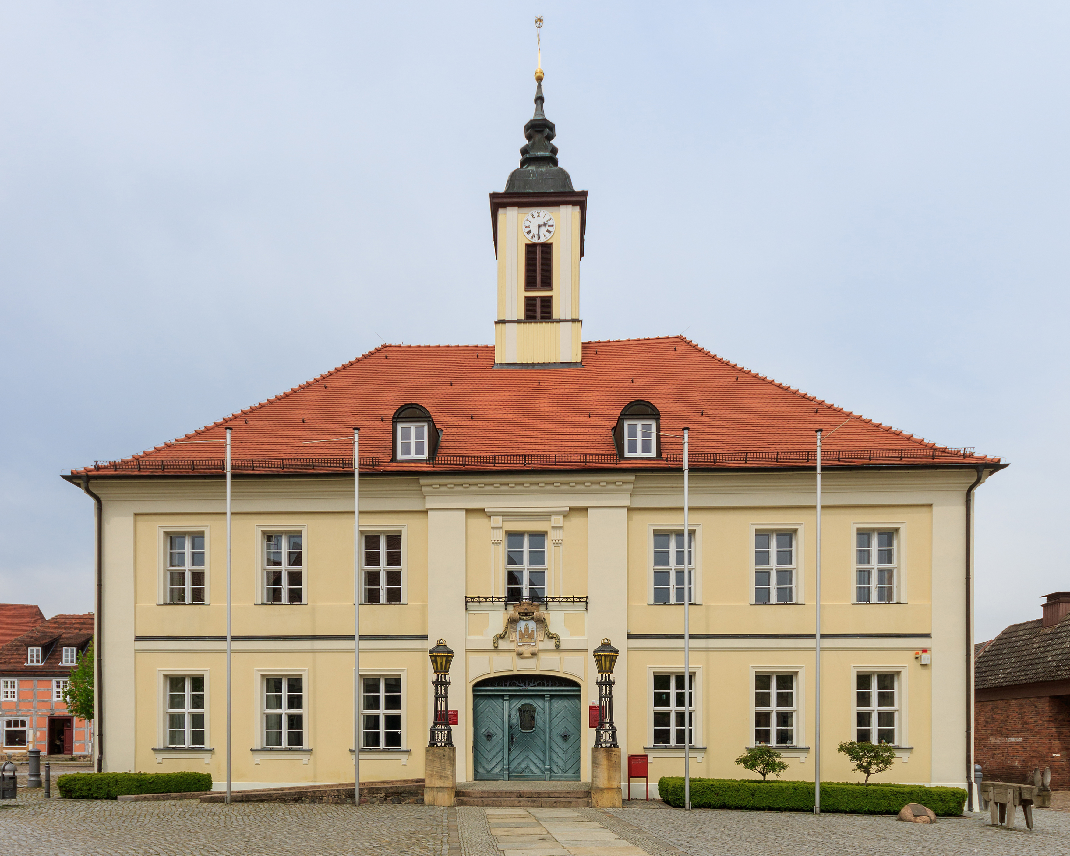 Town hall in Angermünde (Brandenburg/Germany)